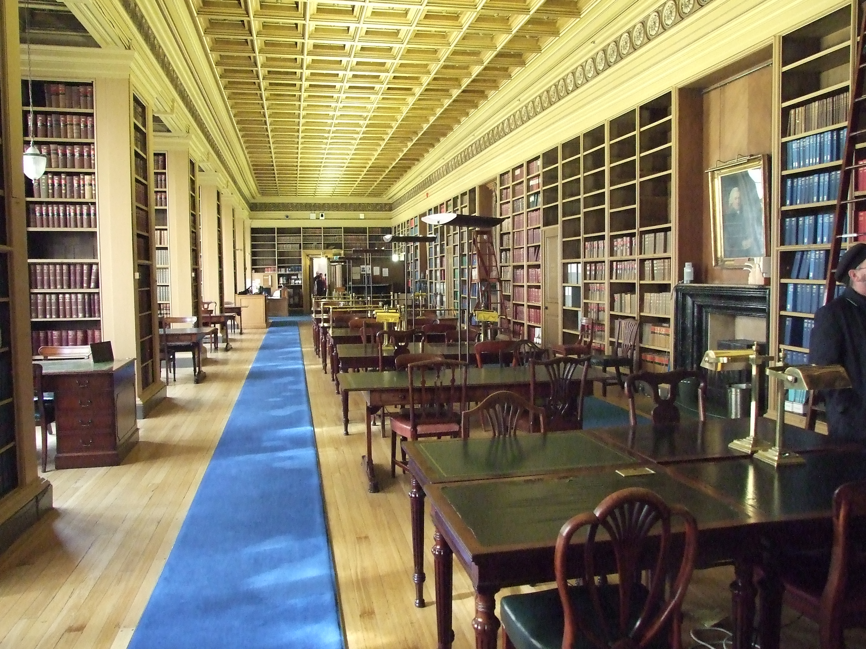 Advocates' Library, Parliament Square, Edinburgh. The library, built in 1830 to William Playfair's design, is accessed from the Parliament Hall. Wikidata has entry Q17570643 with data related to this building.